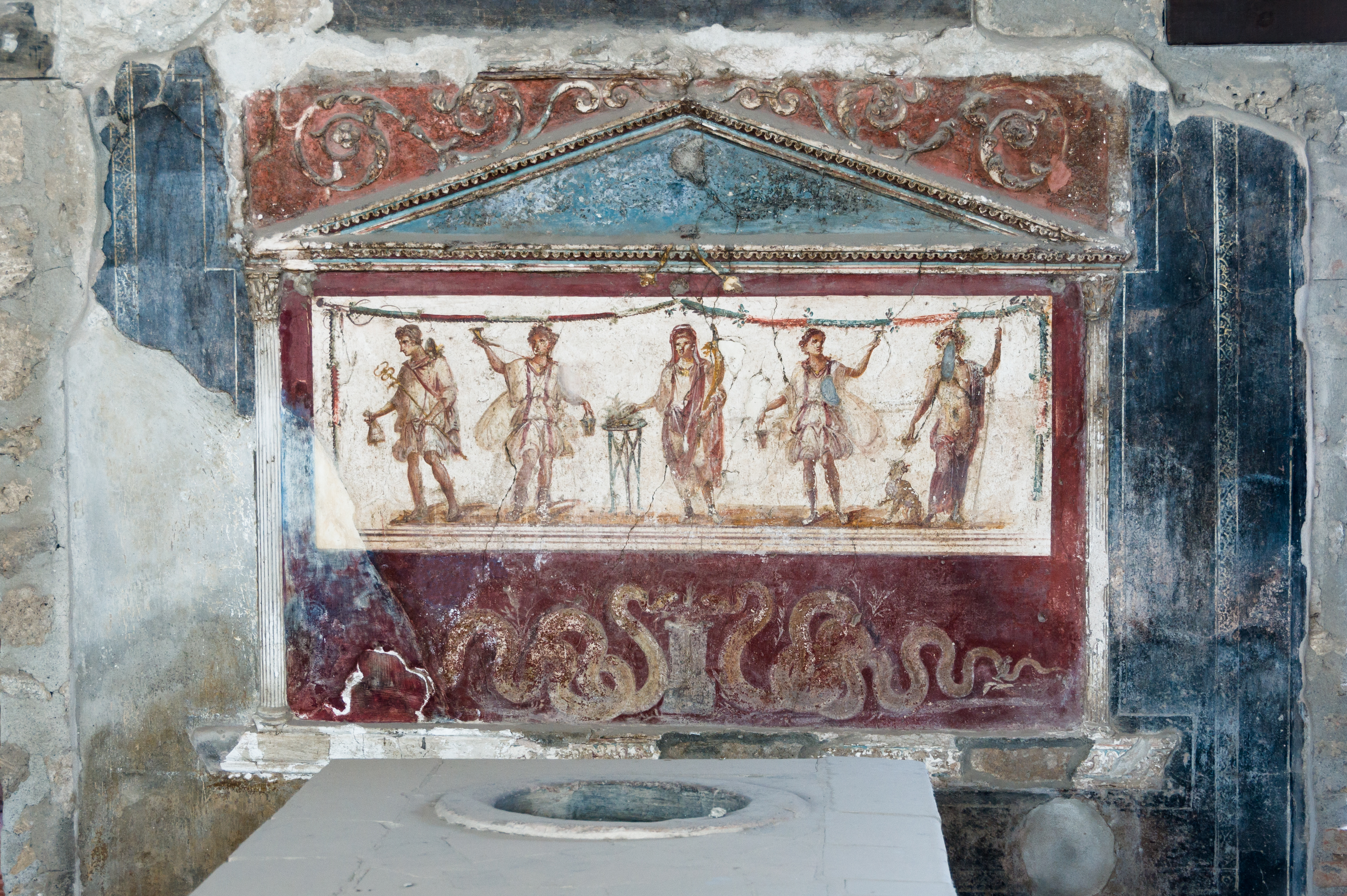 The thermopolium of Lucius Vetutius Placidus in Pompeii, focus on the lararium. Italy.